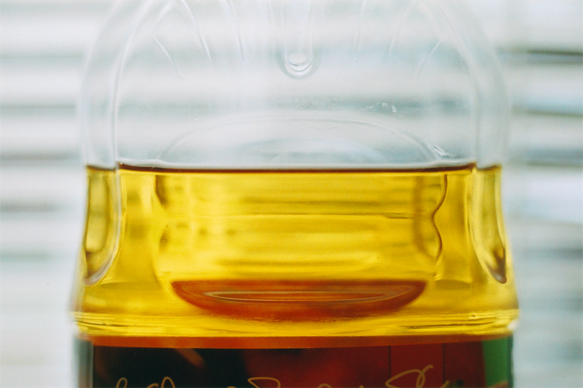 Clear apple juice.